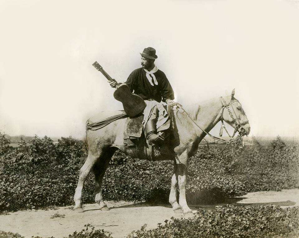 Argentine "payador" Juan Arroyo with his guitar and horse.